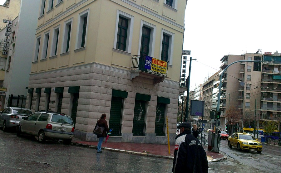 tsaldari